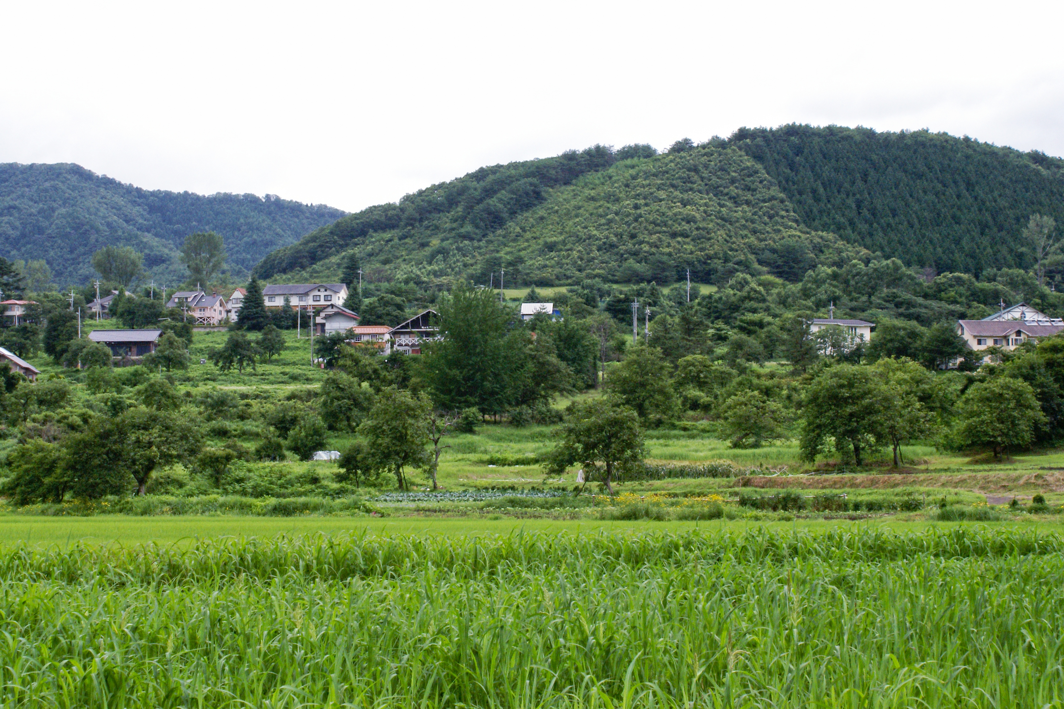 At Kannabe highlands in Toyooka, Hyogo prefecture, Japan